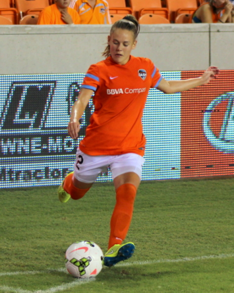 August 30, 2015 at BBVA Compass Stadium in Houston, Texas.